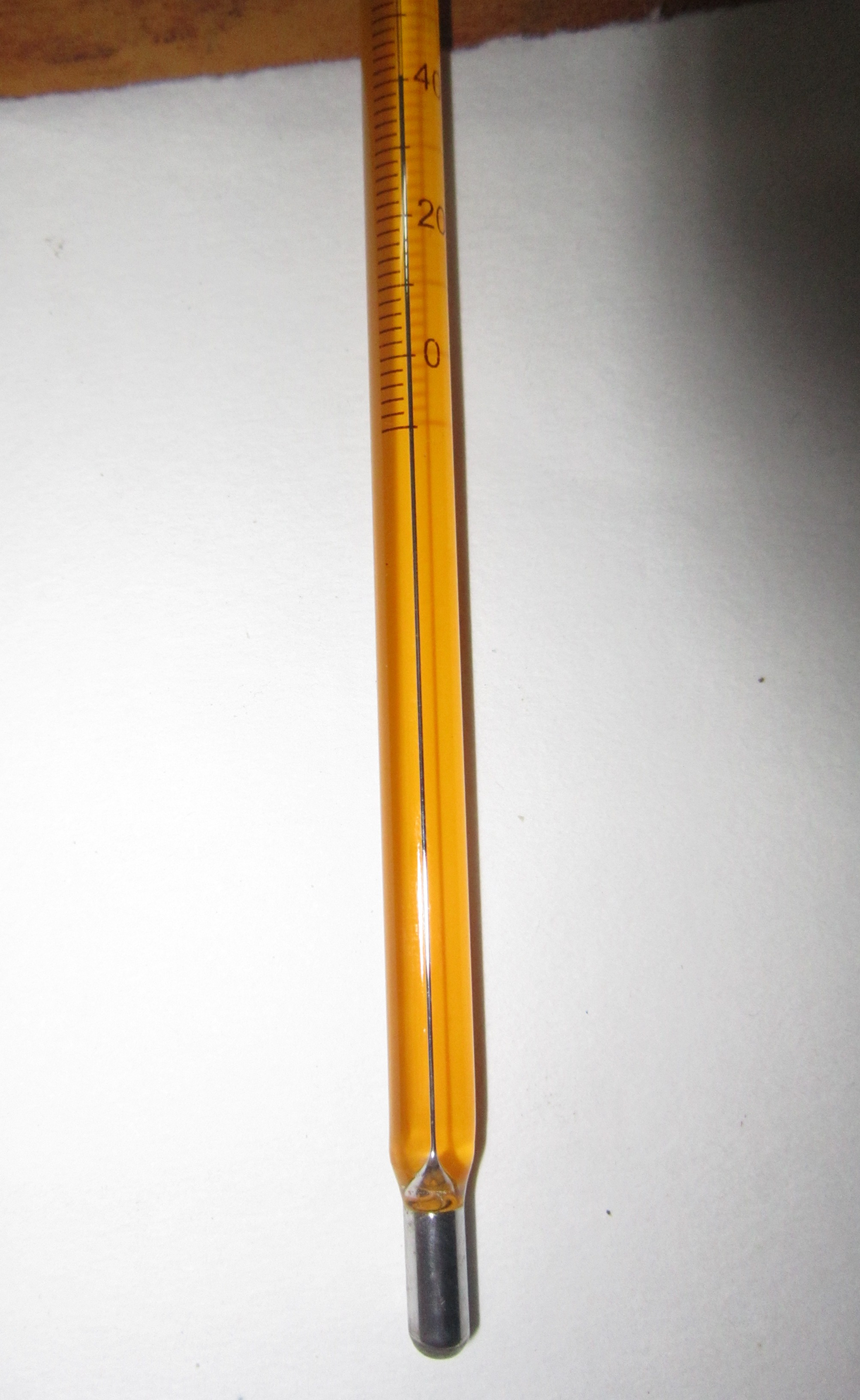 Laboratory instrument-measures temparature of liquids and gases.